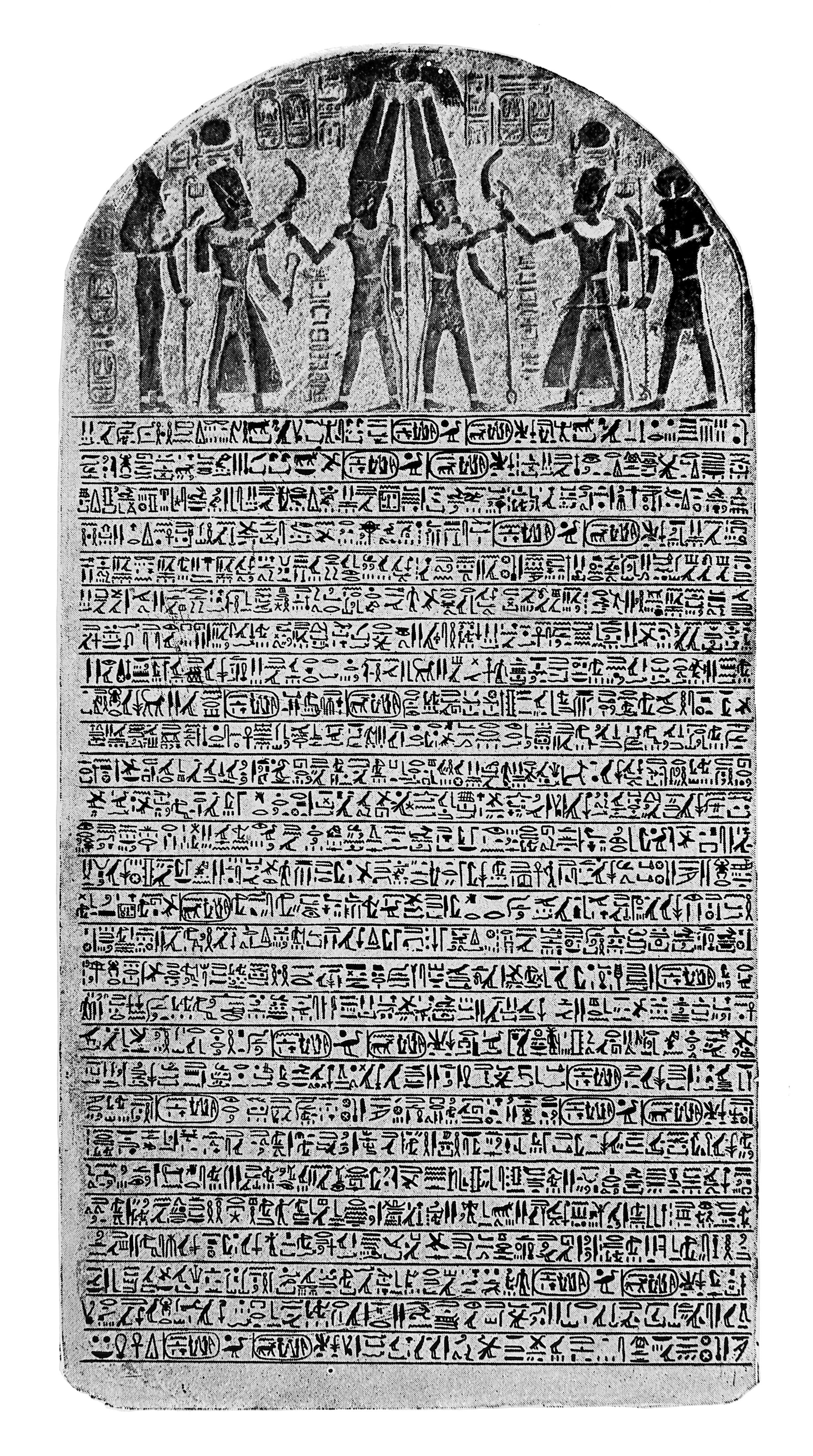 The Merneptah stele, An Egyptian inscription in which reference seems to be made to Israel in the words, 'Y-s-rl, his seed is scattered'. Wellcome Images Keywords: egyptology